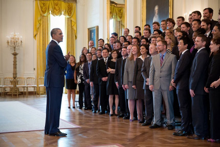 President Barack Obama talks with recipients of the Presidential Early Career Award for Scientists and Engineers in the East Room of the White House, April 14, 2014. White House photo by Pete Souza list of people at source inc Joeanna Arthu, Lucy Cohan and Mona Jarrahi